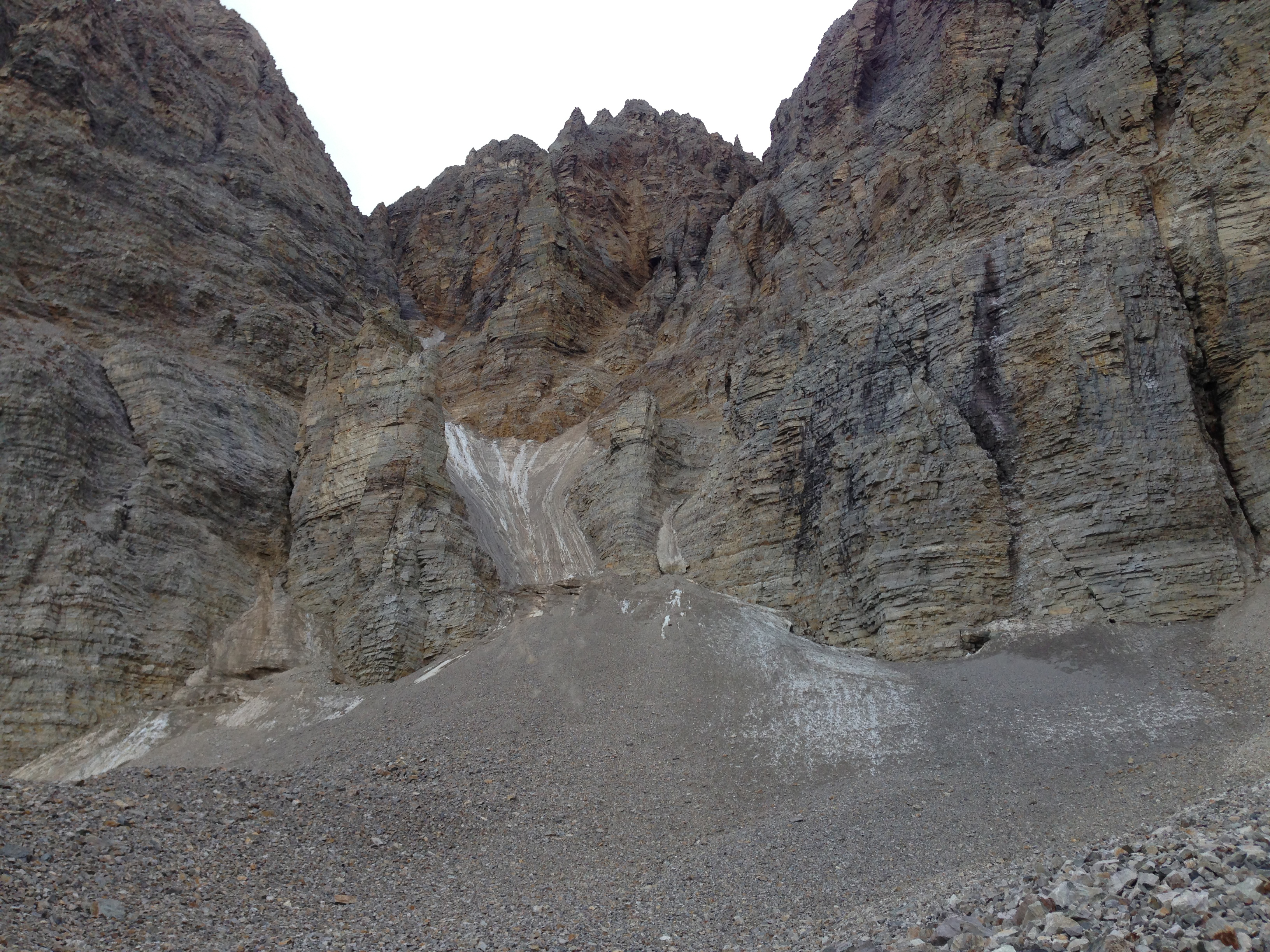 View of the Wheeler Peak Glacier in Great Basin National Park, Nevada